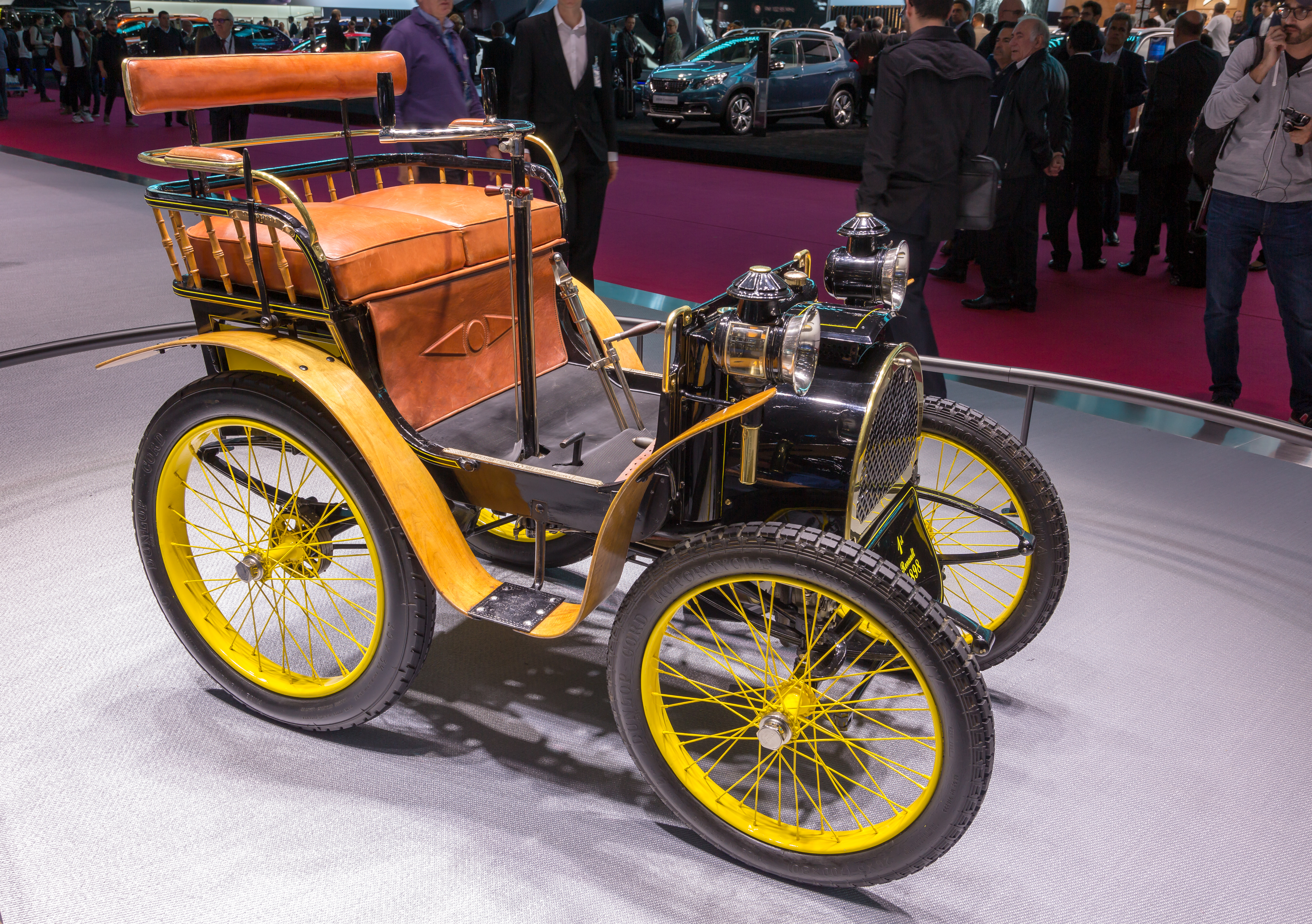 Renault Type A, Mondial Paris Motor Show 2018